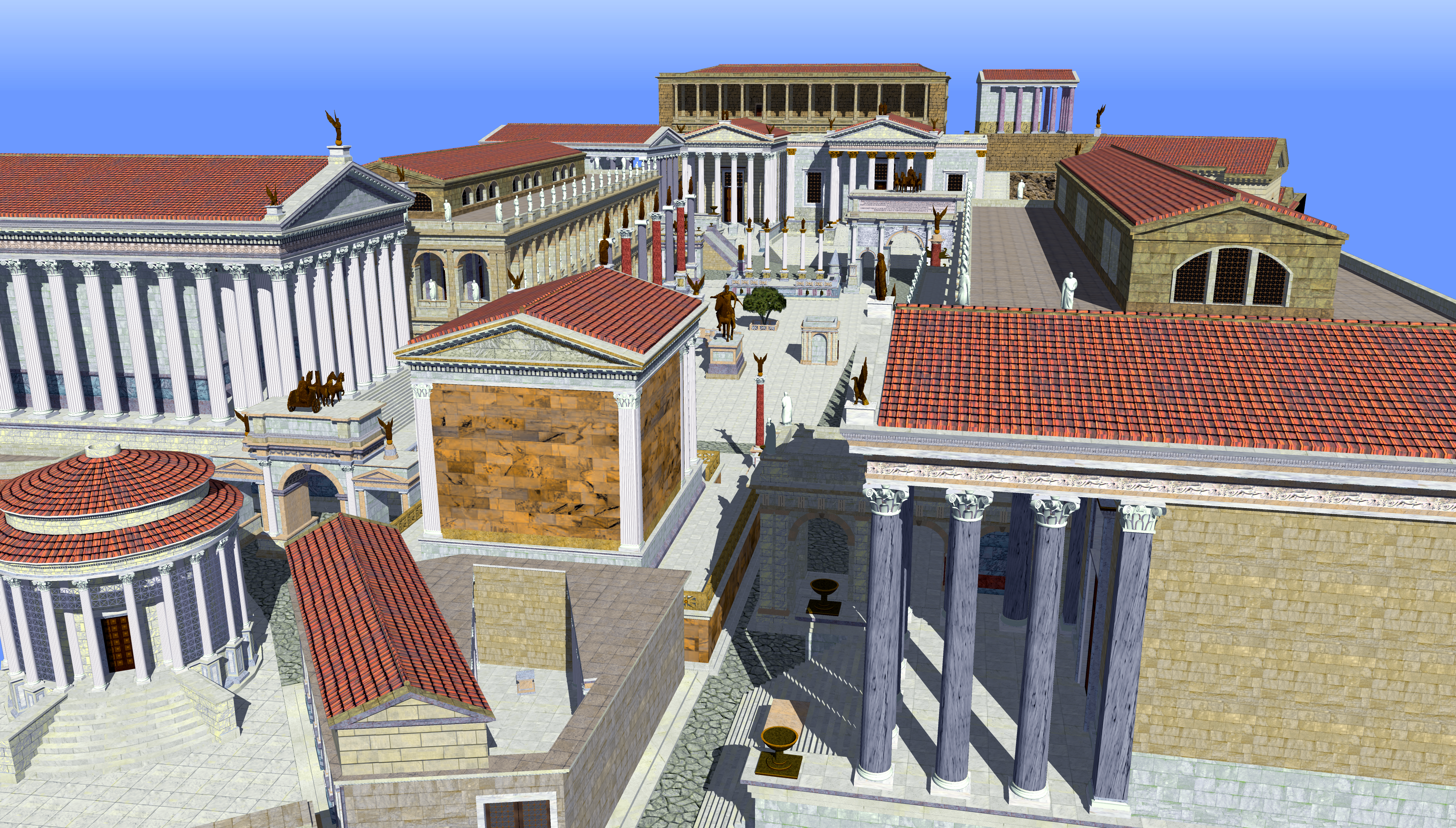 This is a derivative work of a 3D, Computer generated image of the Roman forum by the model maker, Lasha Tskhondia - L.VII.C.[1]. Variations to the original model include shadows, adjusted for good lighting as well as the file being adjusted for color and contrast. [2]